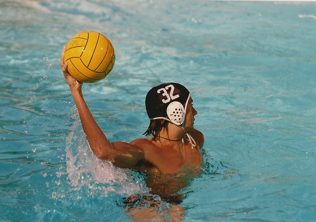 Water polo player.